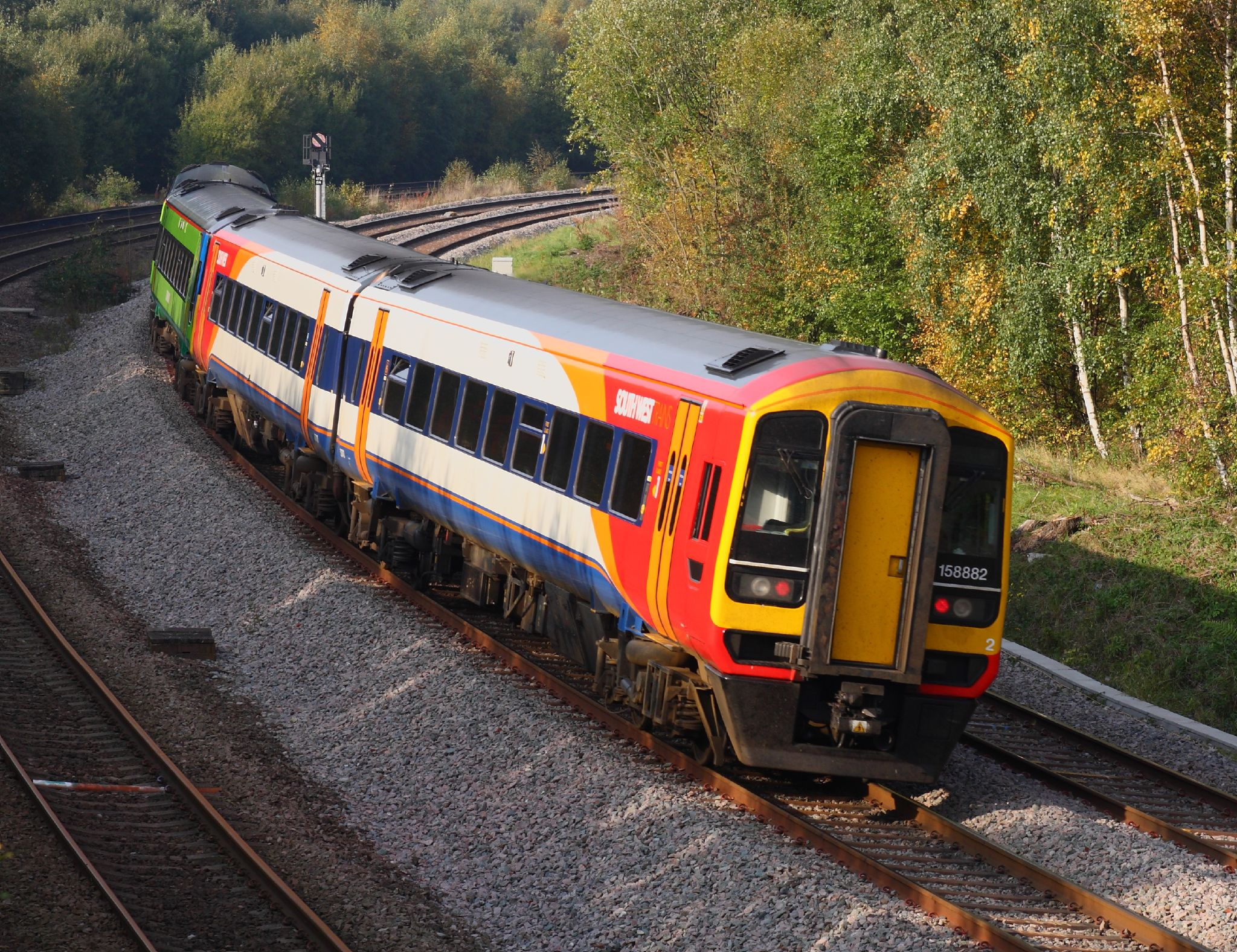 158882 Claycross